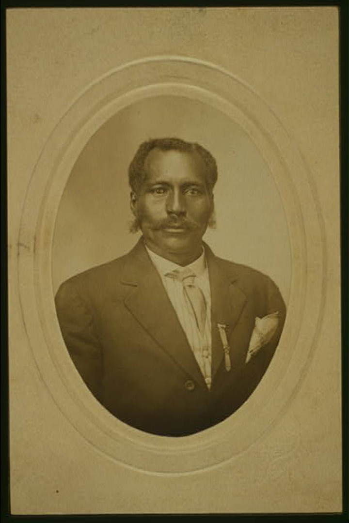 Portrait image of lynching victim Anthony Crawford, lynched in Abbeville, SC, 1916. Image was taken around 1910.